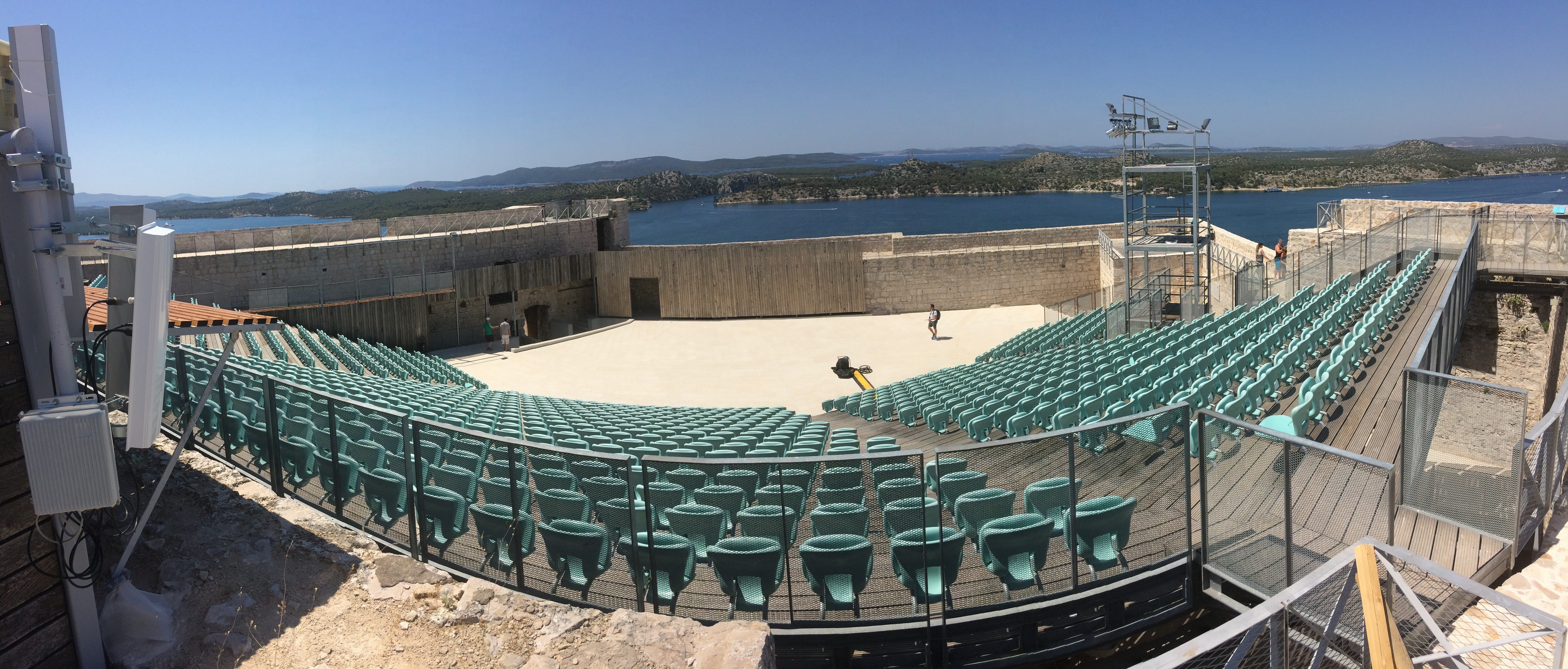 Gledalište Sv. Mihovil